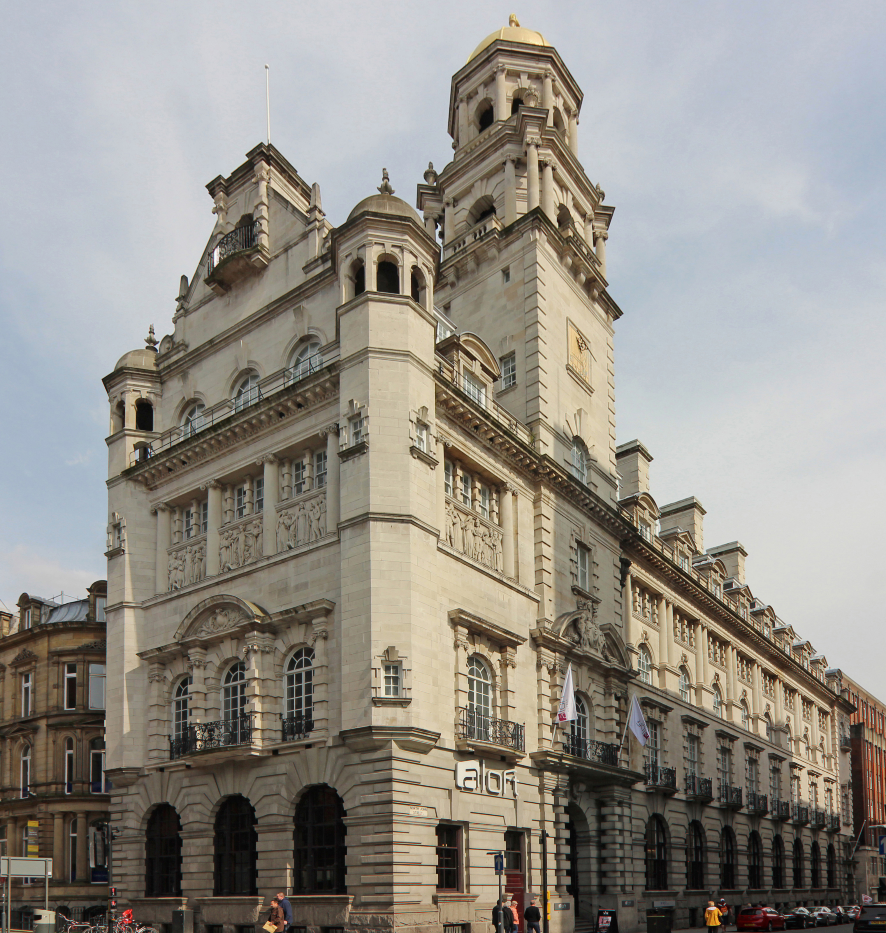 Grade II* former office building, now a hotel on the corner of Dale Street and North John Street viewed from the Lady of Mann.